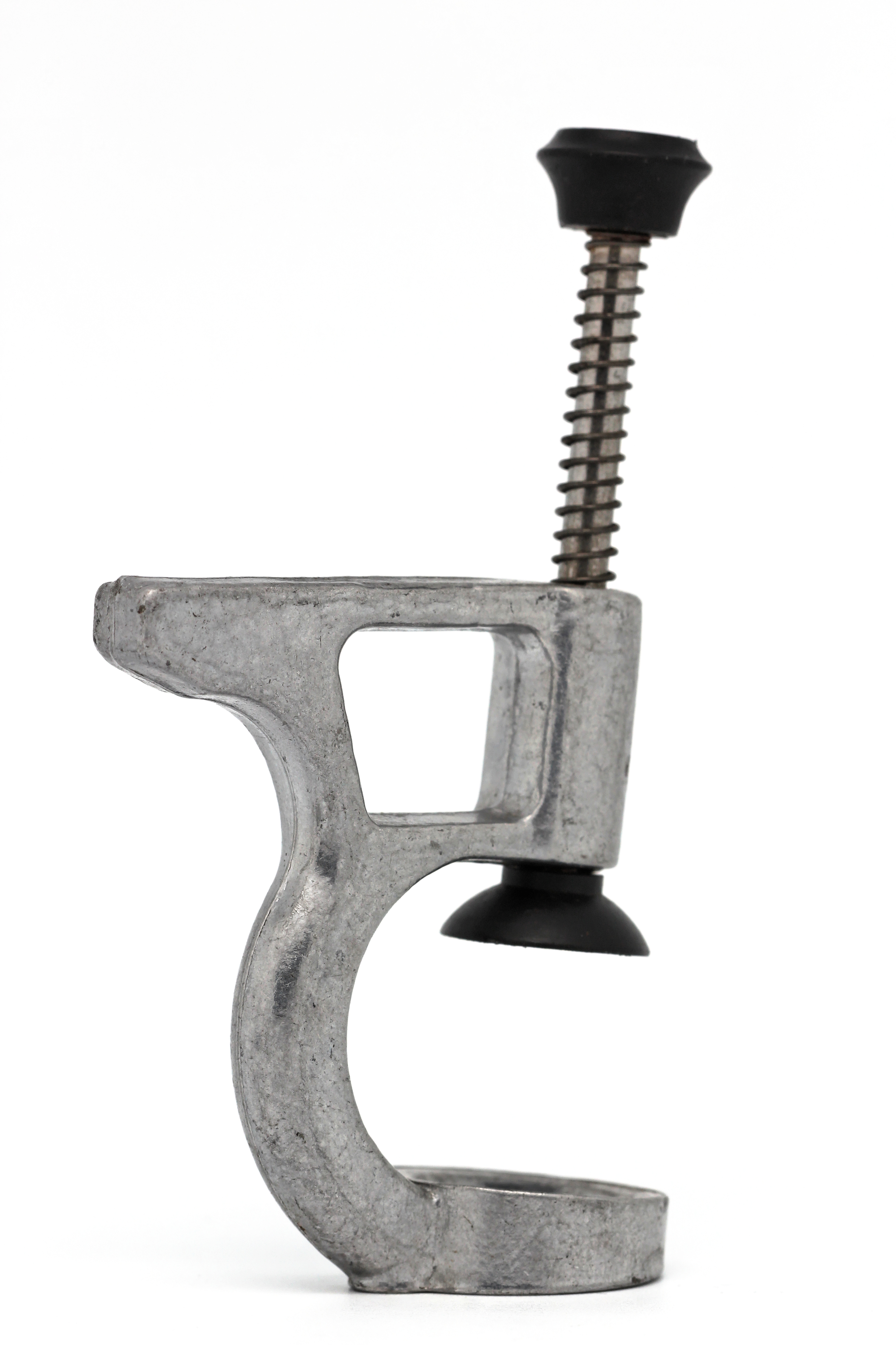 Cherry pitter